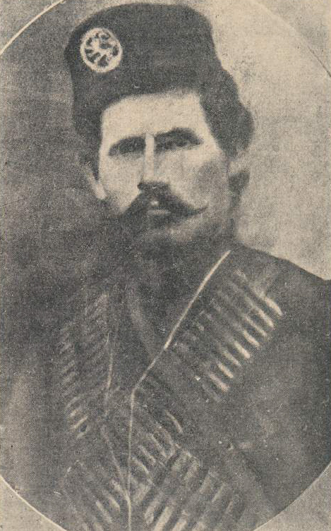 portrait of Petar Germancheto